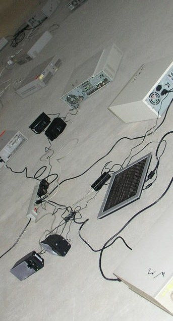 Maurizio Bolognini's installation of Programmed Machines (1992) at Neon, Bologna